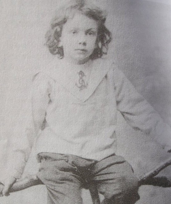 Ivan Lvovich Tolstoy (1888 – 1895), son of Leo Tolstoy